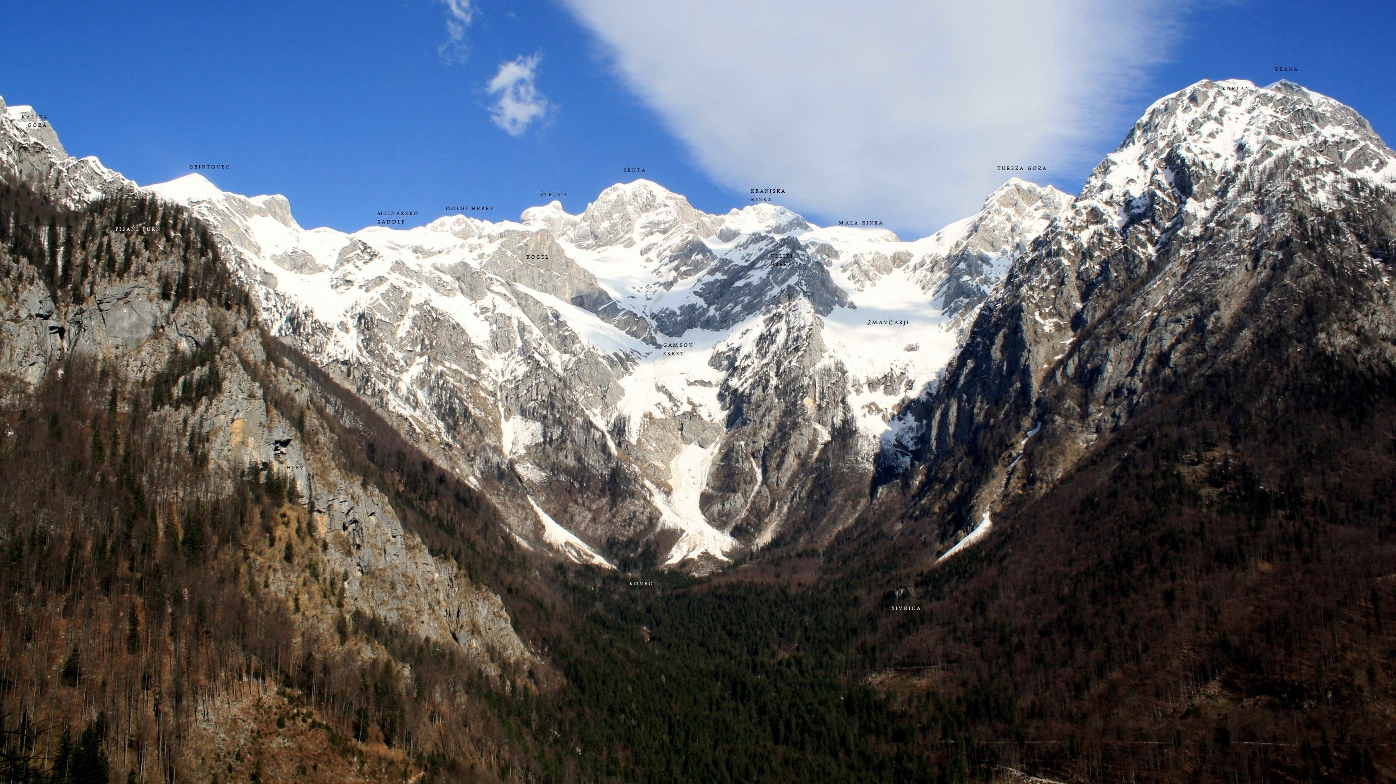 Kamniška Bistrica valley, upper end